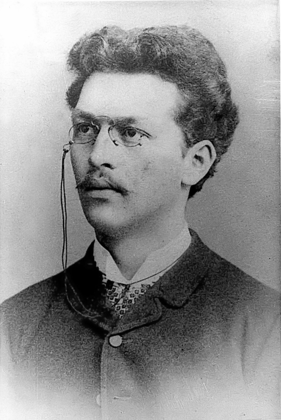 Ostap Nyzhankivsky, Ukrainian writer and cleric.